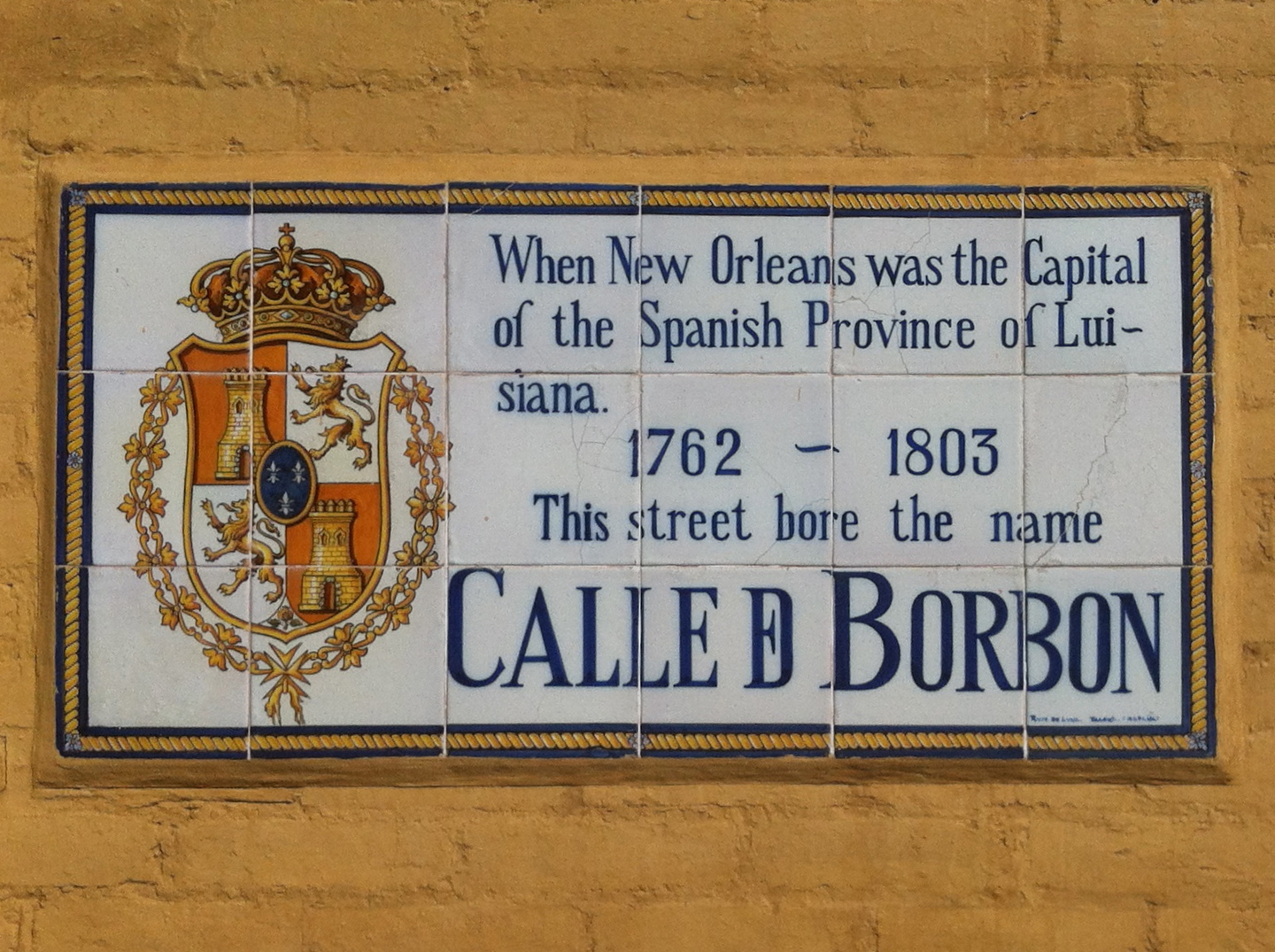 Mosaic tile plaque on an exterior building wall on Bourbon Street in New Orleans. The text explains the origin of the name Bourbon Street. It reads "When New Orleans was the Capital of the Spanish Province of Luisiana. 1762-1803. This street bore the name Calle D Borbon."